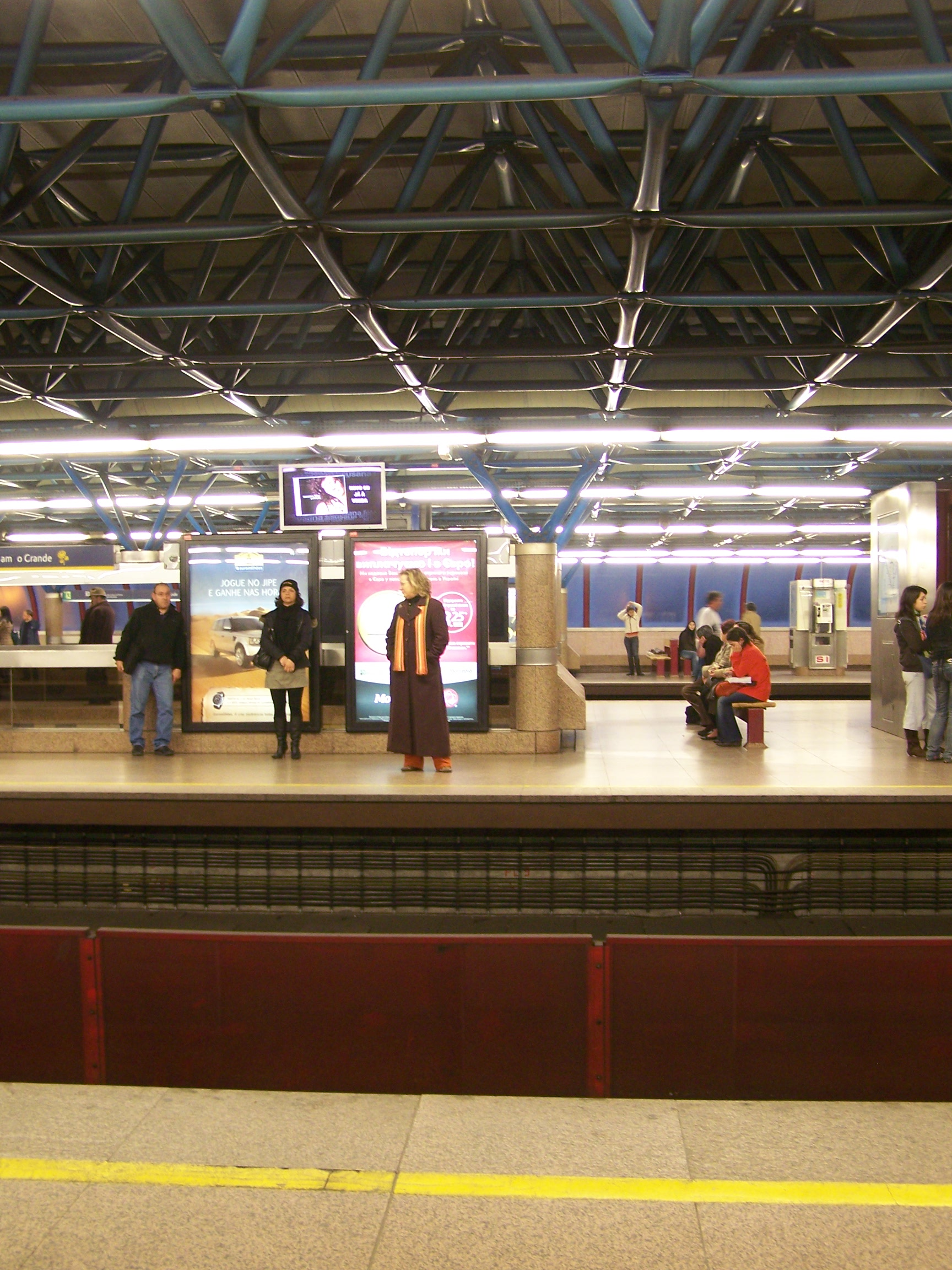 Lisbon's metro station Campo Grande, Portugal